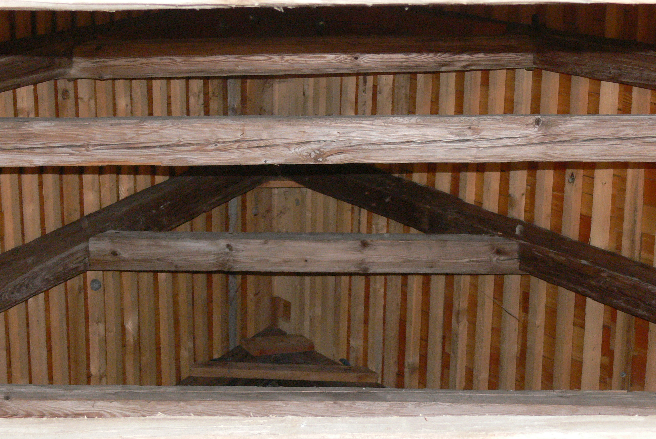 Neuhaus castle ( Upper Austria ). Old castle - Third floor: Wooden roof.